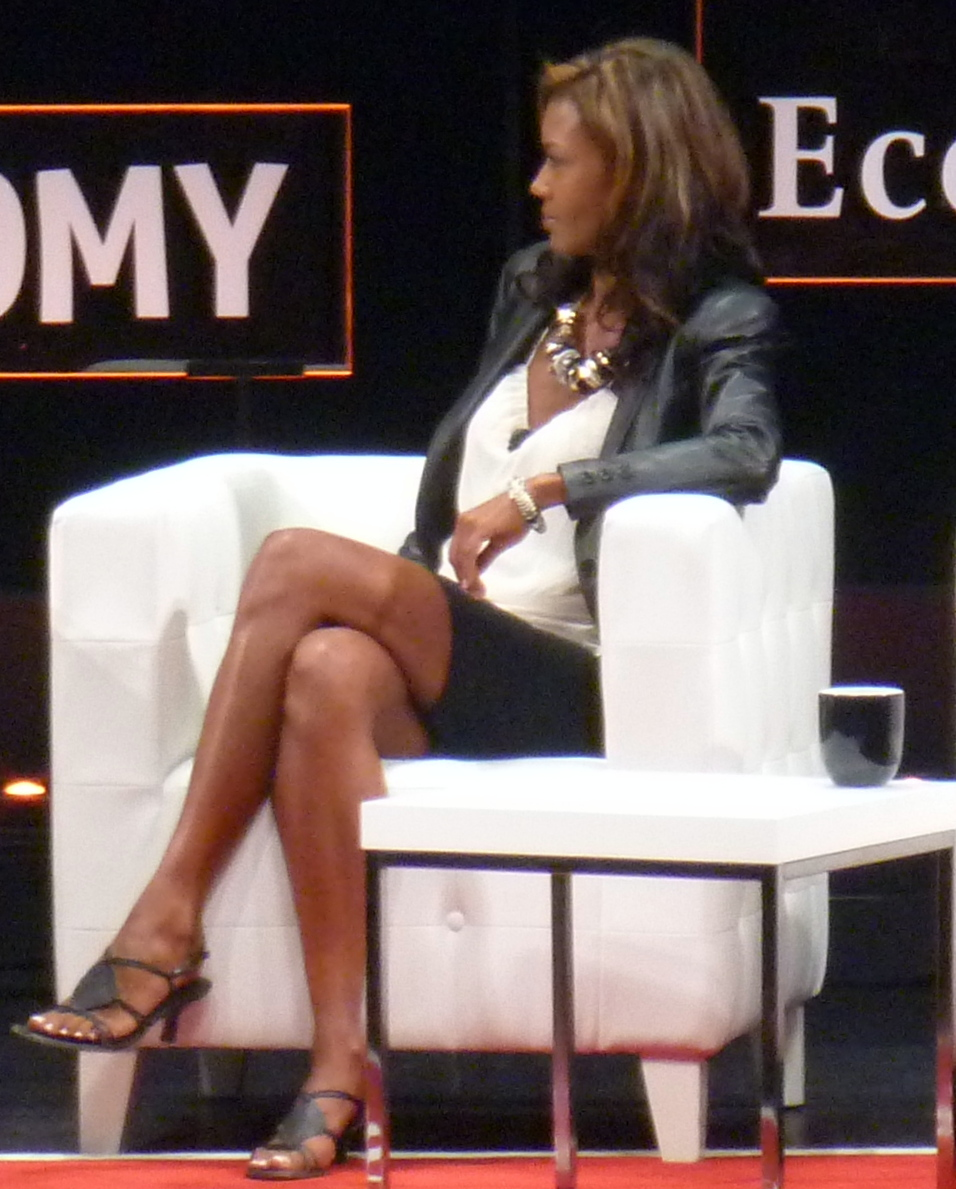 Geoffrey Nunberg and Juliette Powell at Information 2012: Big data and the evolution of smart systems.